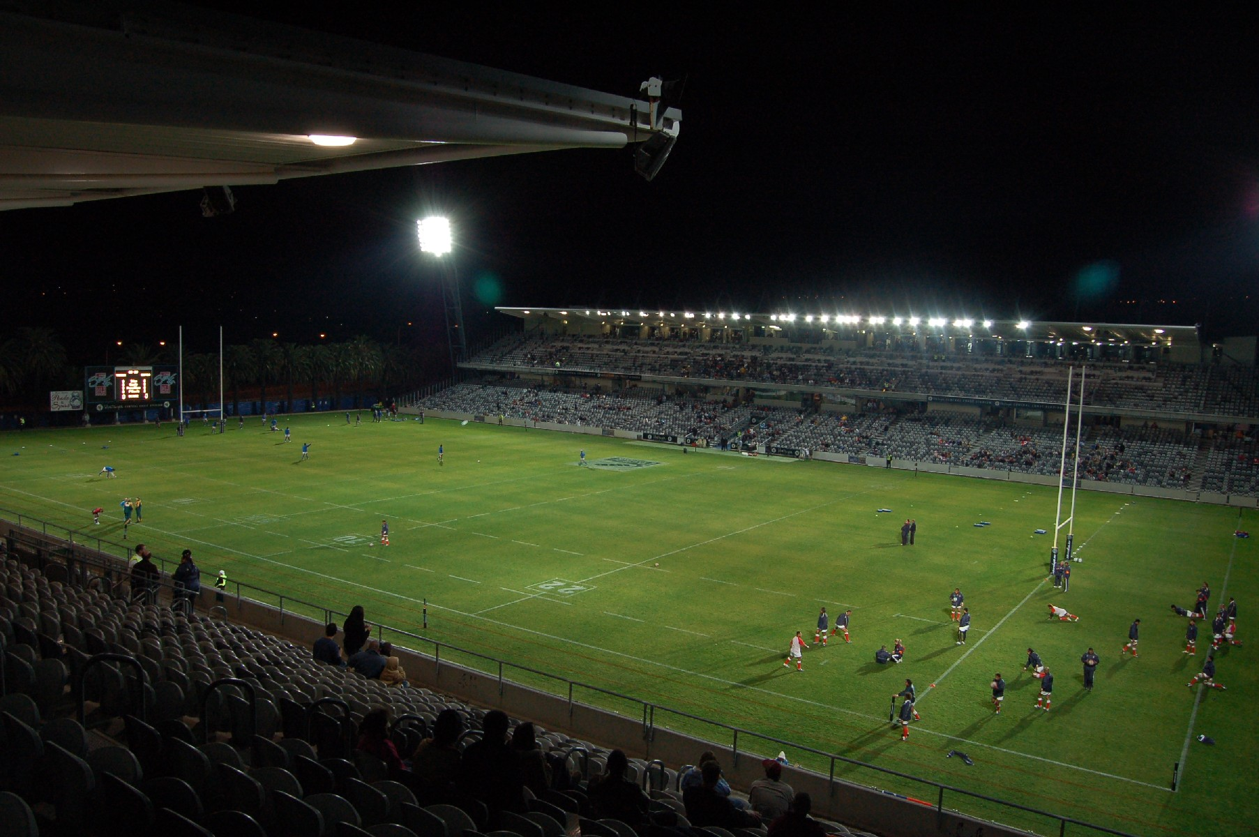 Photograph of Blue Tounge Stadium during the Tongo vs. Samoa Pacific Nations Pre-match warmup.